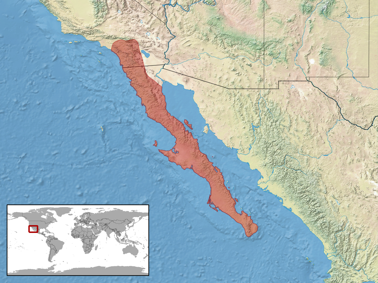 geographic distribution of Crotalus ruber (Native: Mexico; United States)